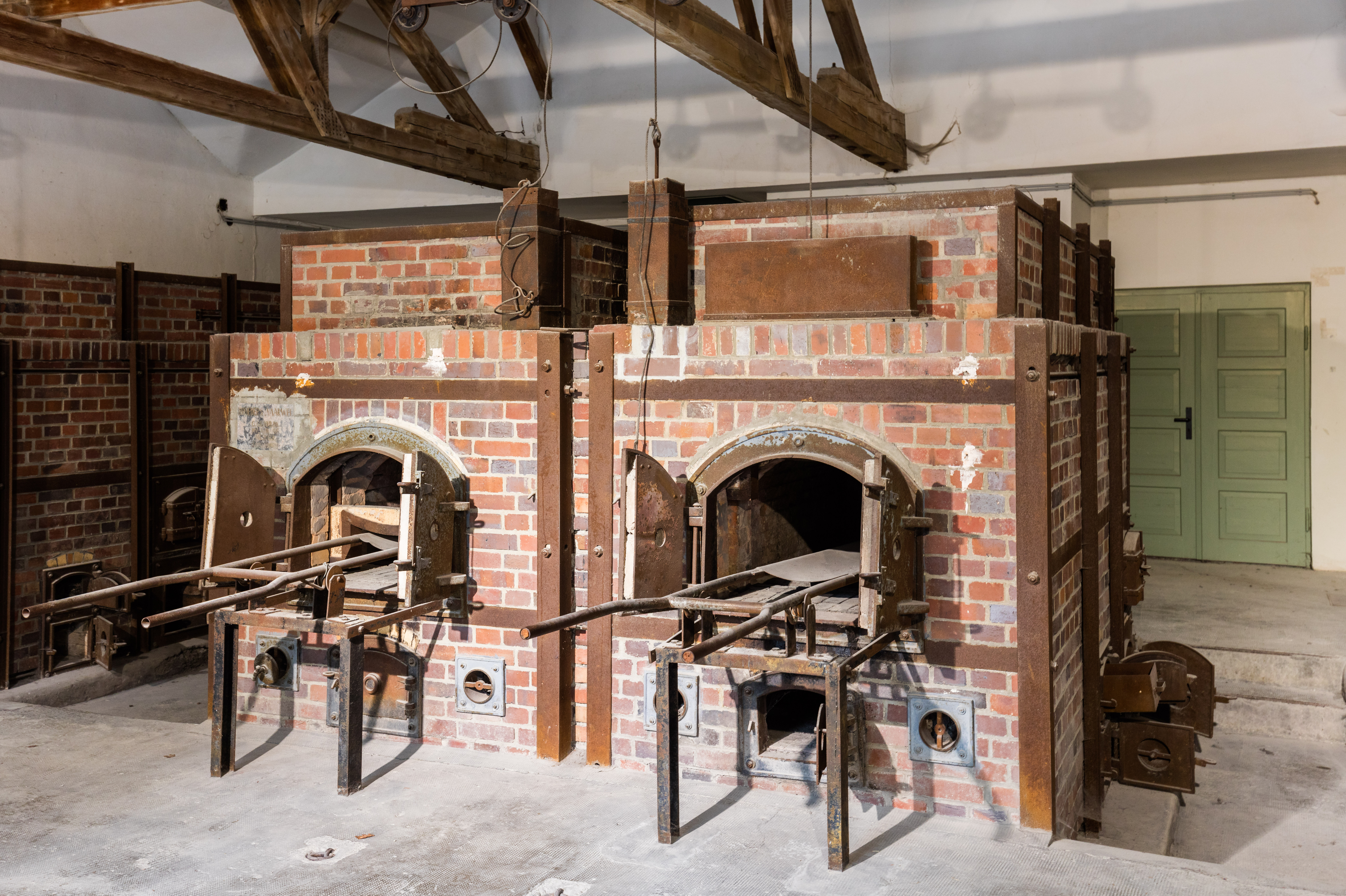 New crematorium, concentration camp of Dachau, Germany